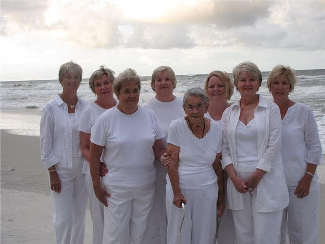 This picture is of the seven sisters who created the Sisters Family Cookbook and their mother on one of their Sister Gatherings.